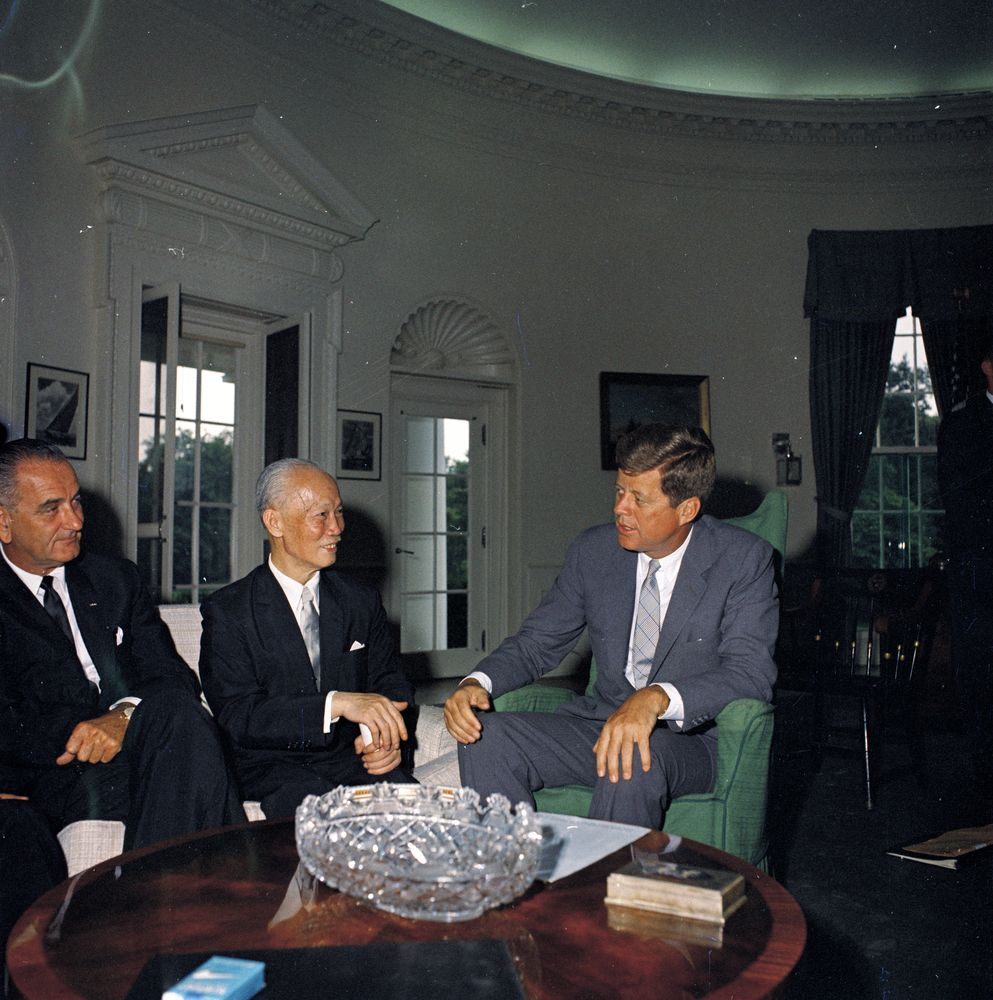 President John F. Kennedy meets with Chen Cheng, Vice President of the Republic of China. (L – R): Vice President Lyndon Johnson; Vice President Chen; President Kennedy (seated in fabric-covered rocking chair). Oval Office, White House, Washington, D.C.